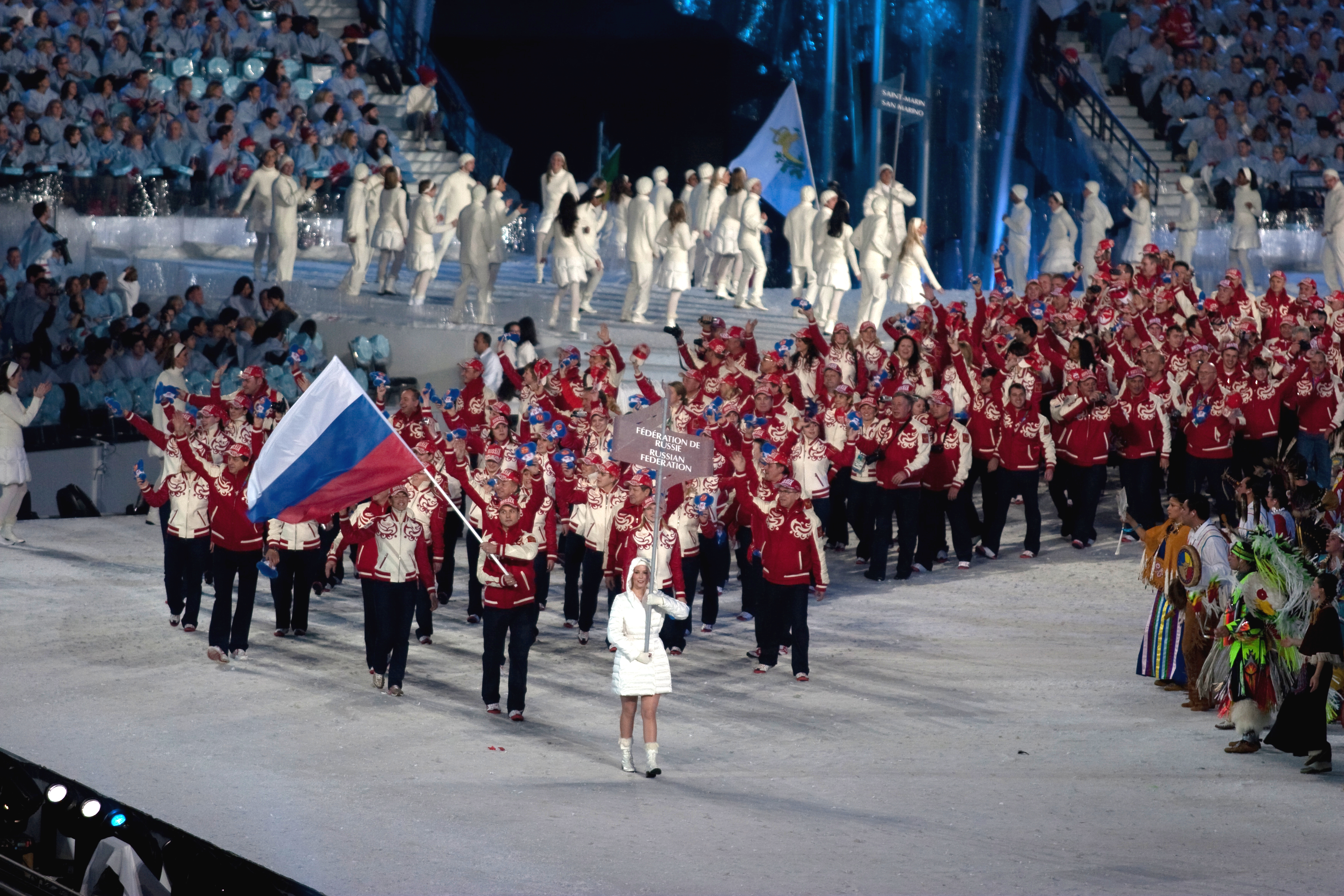 The athletes from the Russian Federation entering the stadium at the opening ceremonies of the 2010 Winter Olympics.